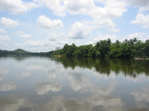 Crossing the Moa River at Tiwai Island Wildlife Sanctuary, Sierra Leone